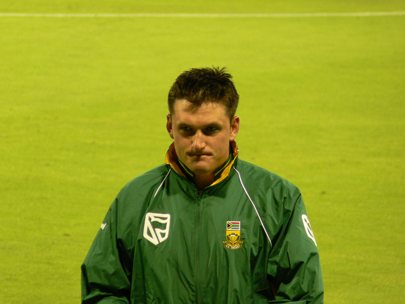 South African cricketer Graeme Smith.